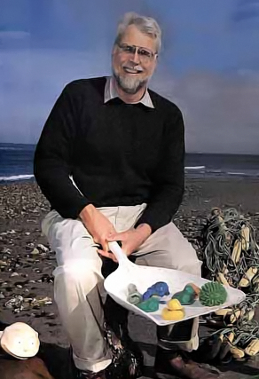 Oceanographer Curtis Ebbesmeyer with flotsam he uses to monitor ocean currents.